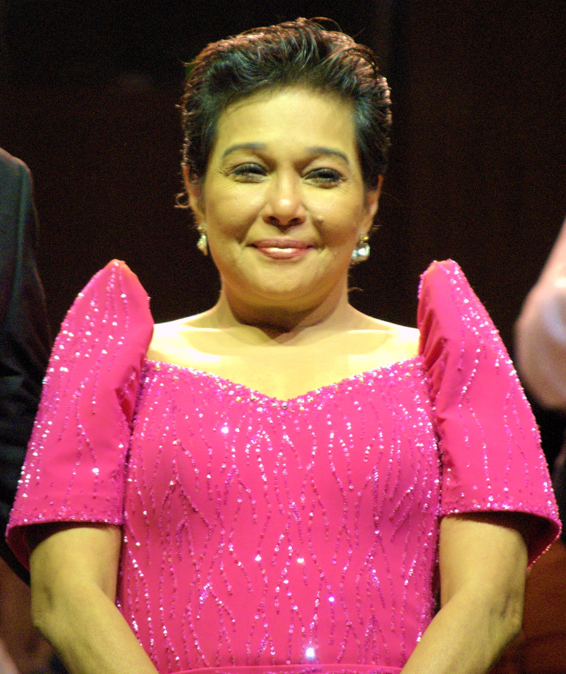 Nora Aunor attending the 69th Venice International Film Festival at Venice Lido in September 6, 2012.